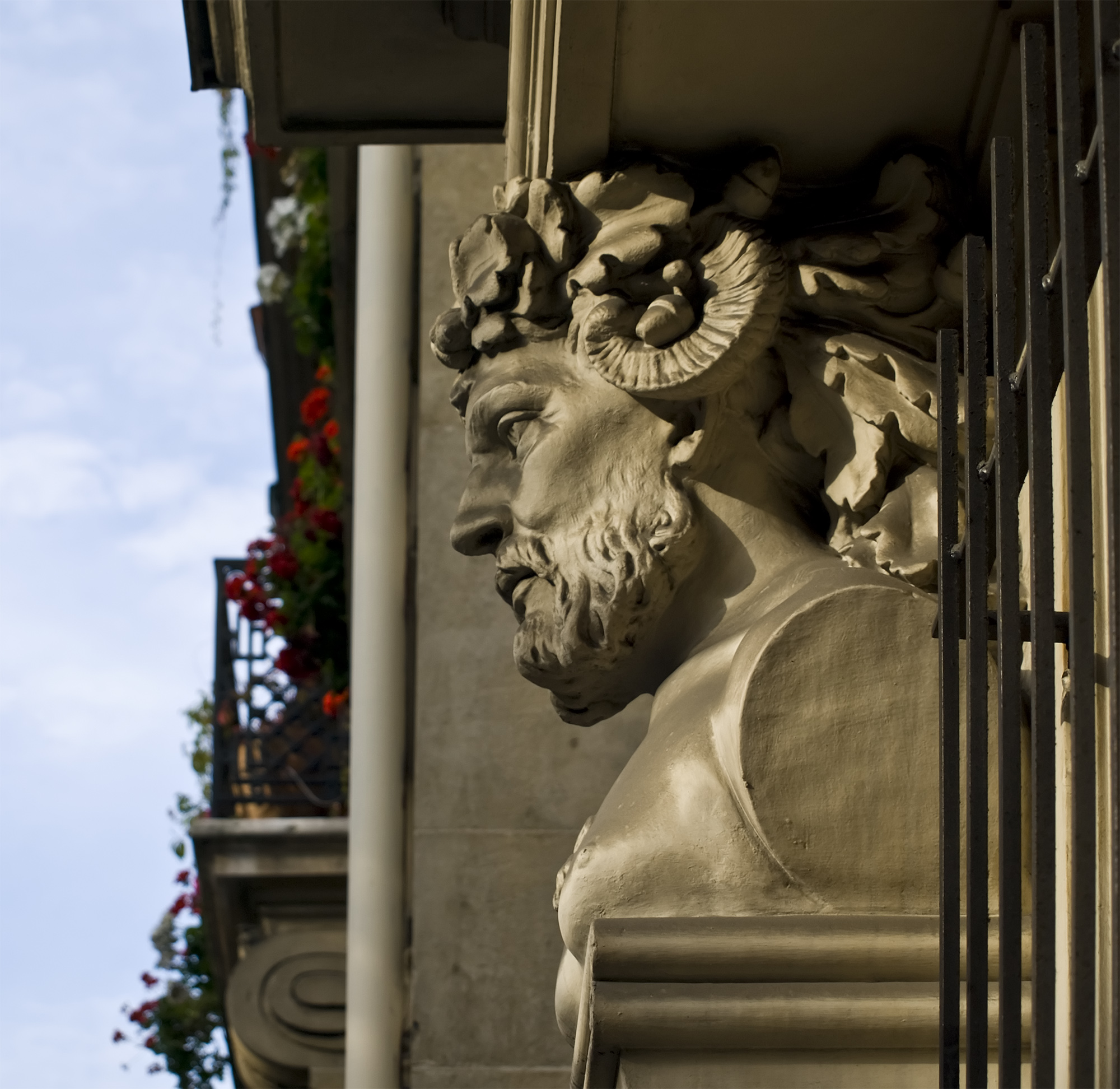 The bust of a satyr. Sculpture at the entrance of a building in Paris. Rue Madame, Paris, 6th arrondissement.